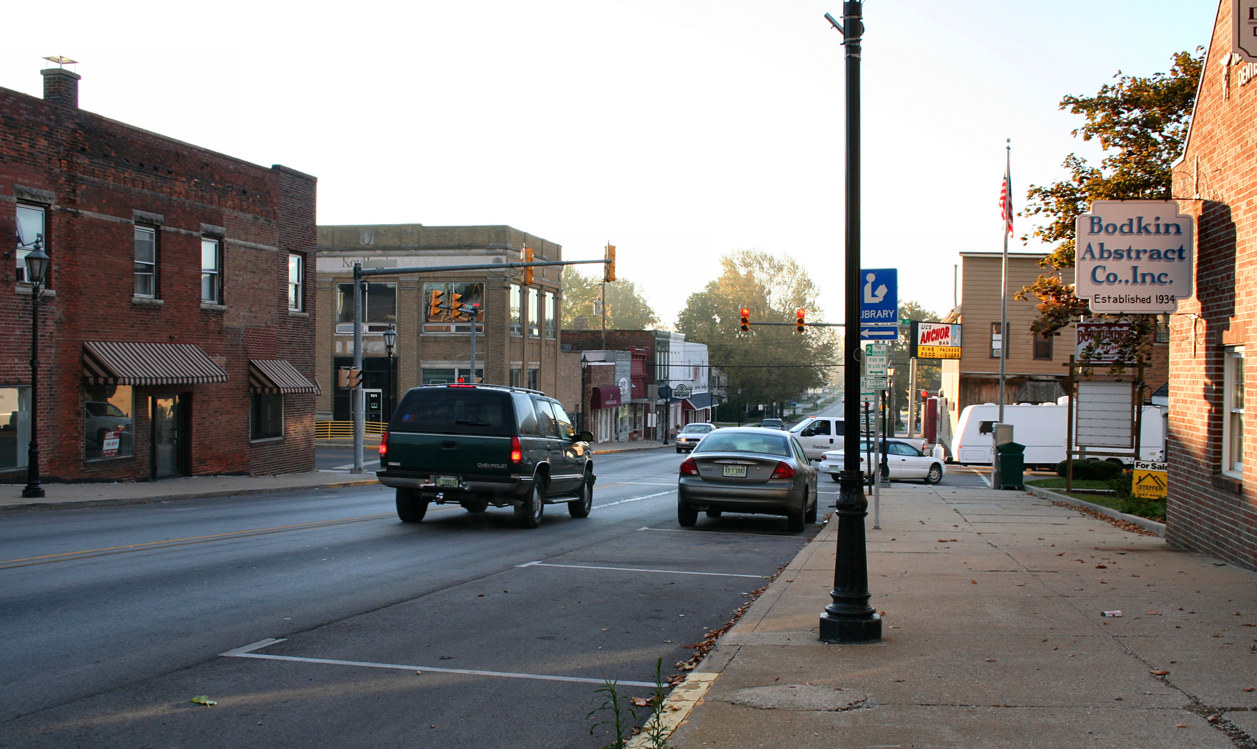 Downtown Syracuse, Indiana, looking south. Photo shot by Derek Jensen (Tysto), 2005-October-17